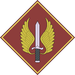 Jordan Sepecial Forces arm patch